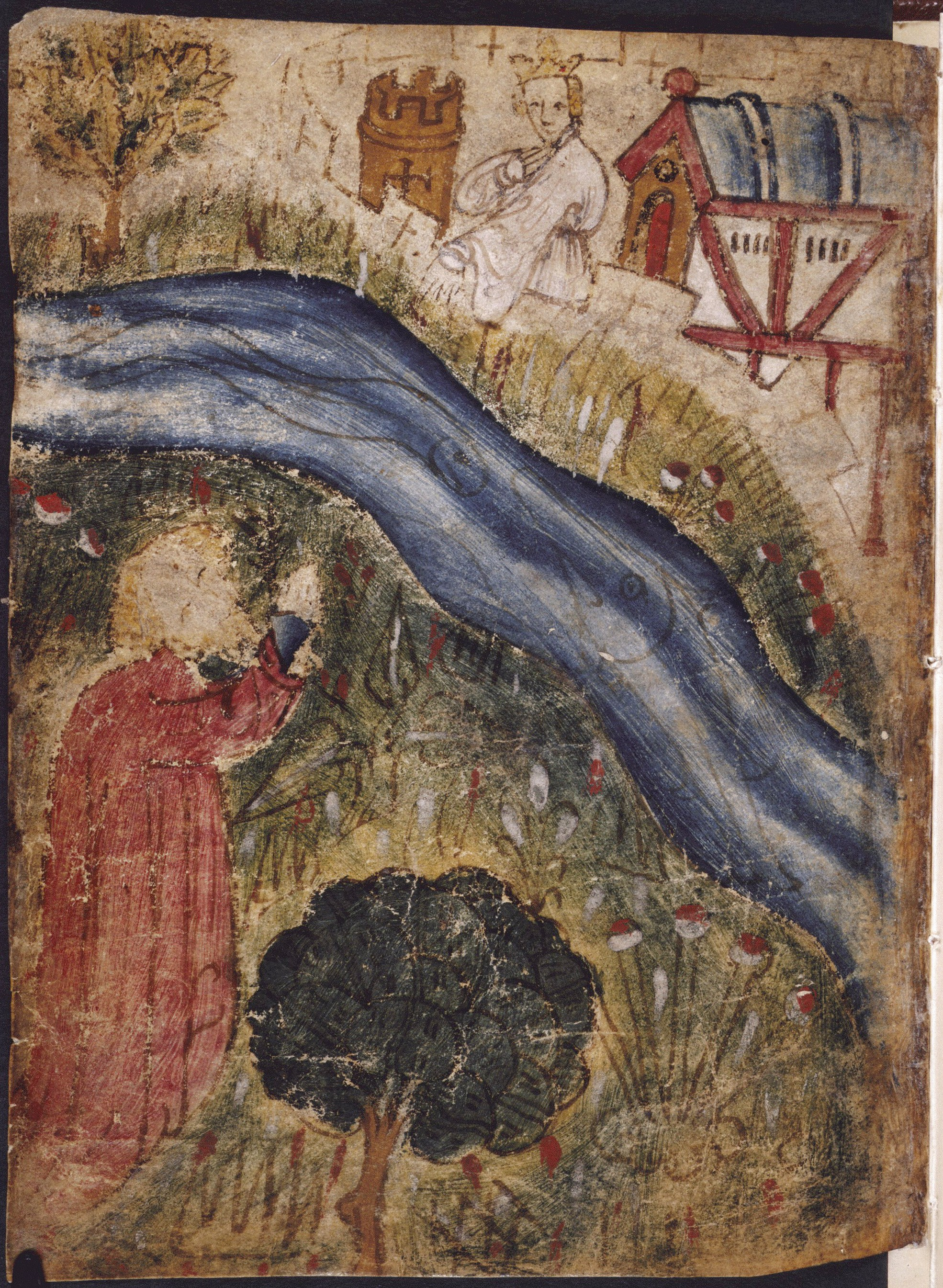 Illustration to an English manuscript of Pearl, circa 1400. Pearl is an anonymous 14th-century poem, written in Middle English. The poem describes an allegorical dream/vision, and alludes to Jesus' parable of the Pearl. This painting is the last of a series of four miniatures illustrating prominent aspects of the vision: 1) falling asleep in this world; 2) wandering in a dream/vision garden; 3) encountering his guide, the Pearl maiden, on the far side of a river; 4) being shown the heavenly Jerusalem.